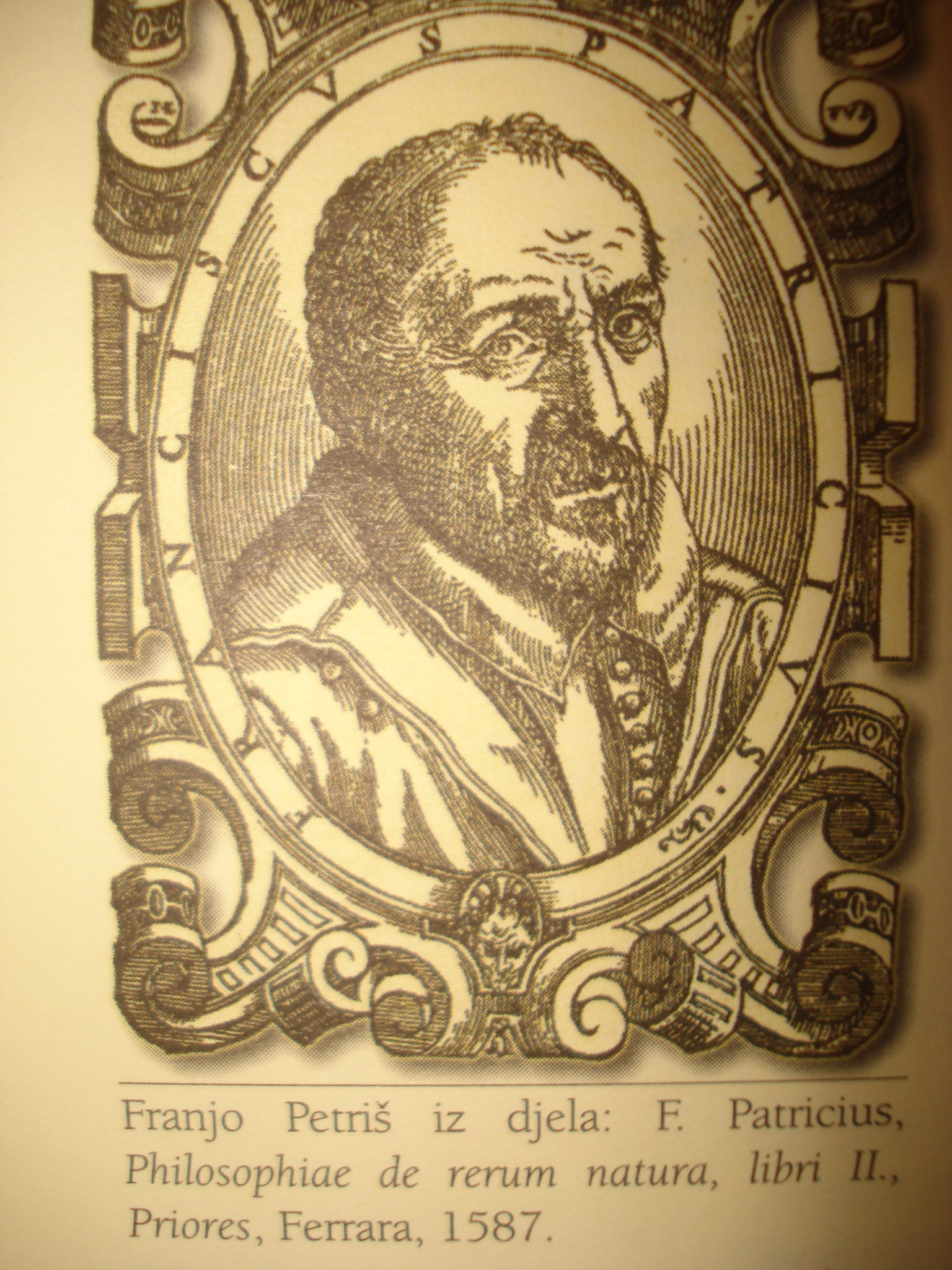 Franjo Petriš (Latin: Franciscus Patricius) /1529-1597/, Croatian philosopher and scientist who resided in Italy - portrait from 1587